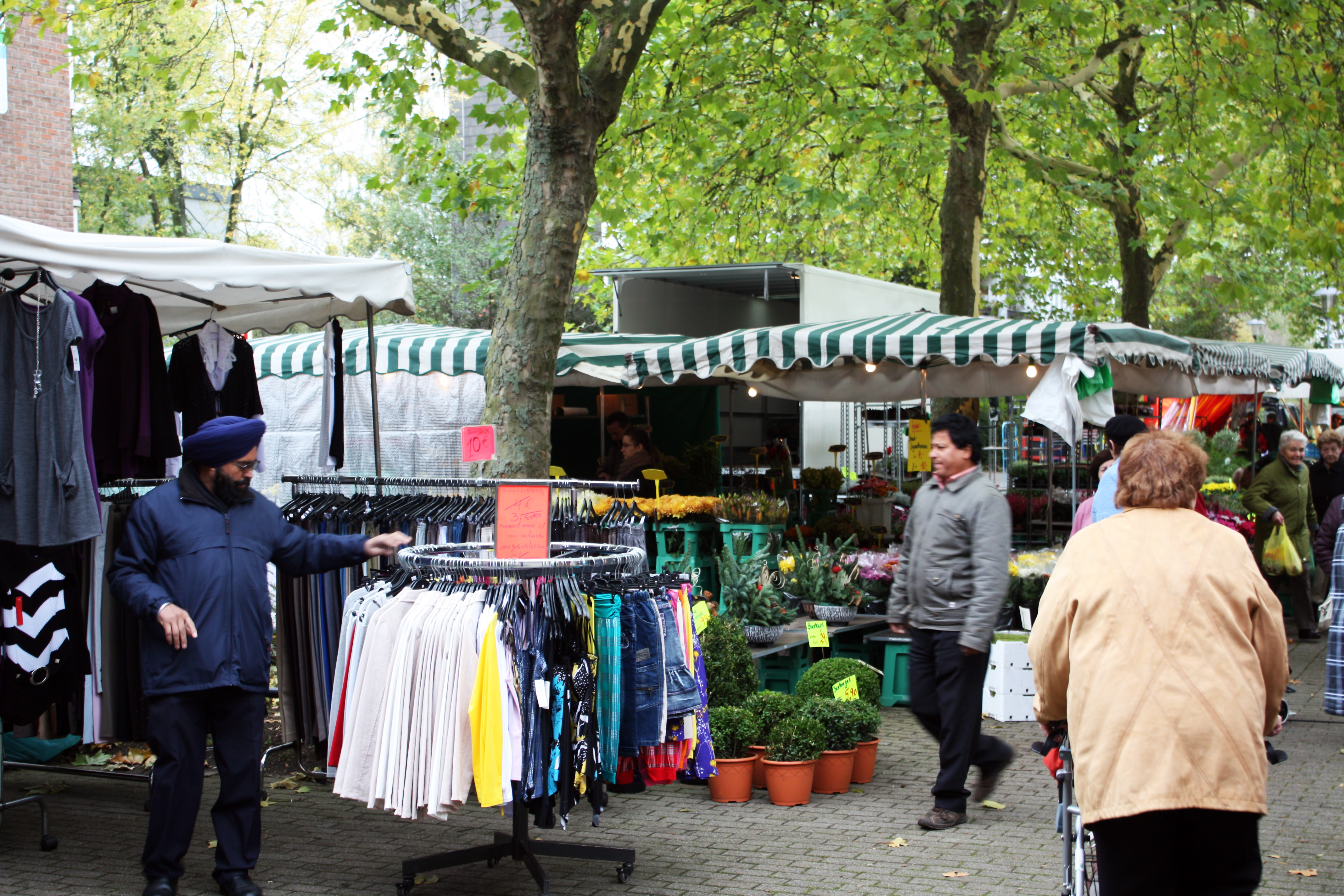 Weekly market in Cologne-Neubrück, Northrhine-Palatinate, Germany